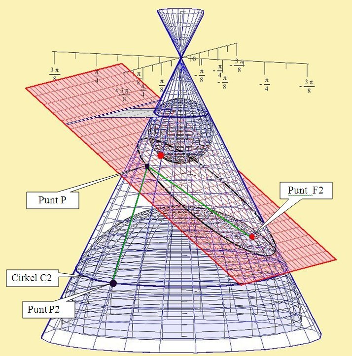 The two Dandelin spheres in case of an ellipse.